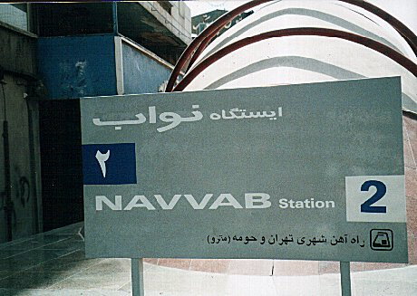 Photos thanks to Mr. Kajiura.